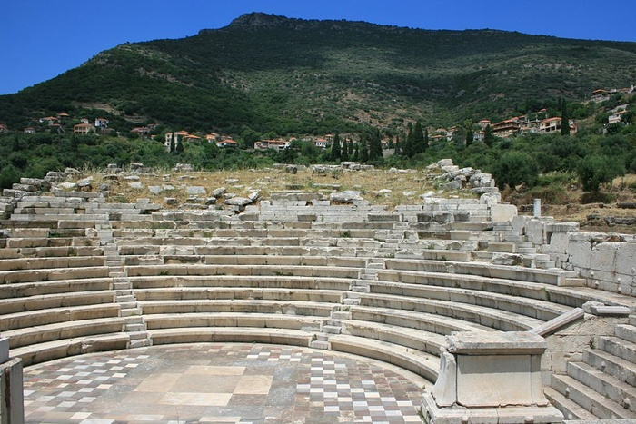 View from the antique Messene up to the mountain Ithome (Voulkanou, Βουλκάνου)